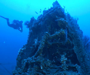 (Photo: NOAA National Marine Sanctuaries)